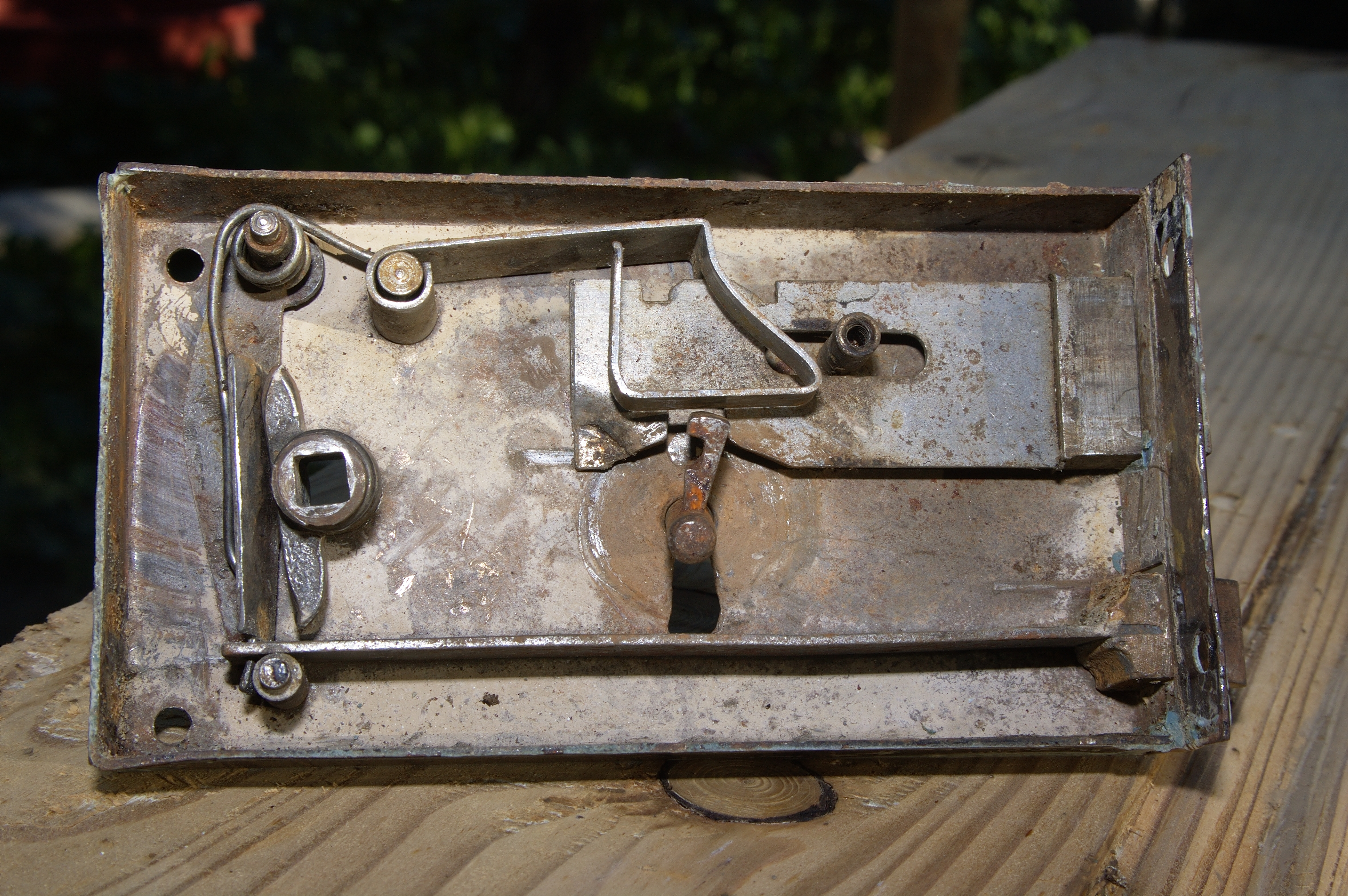 Old door lock with key.